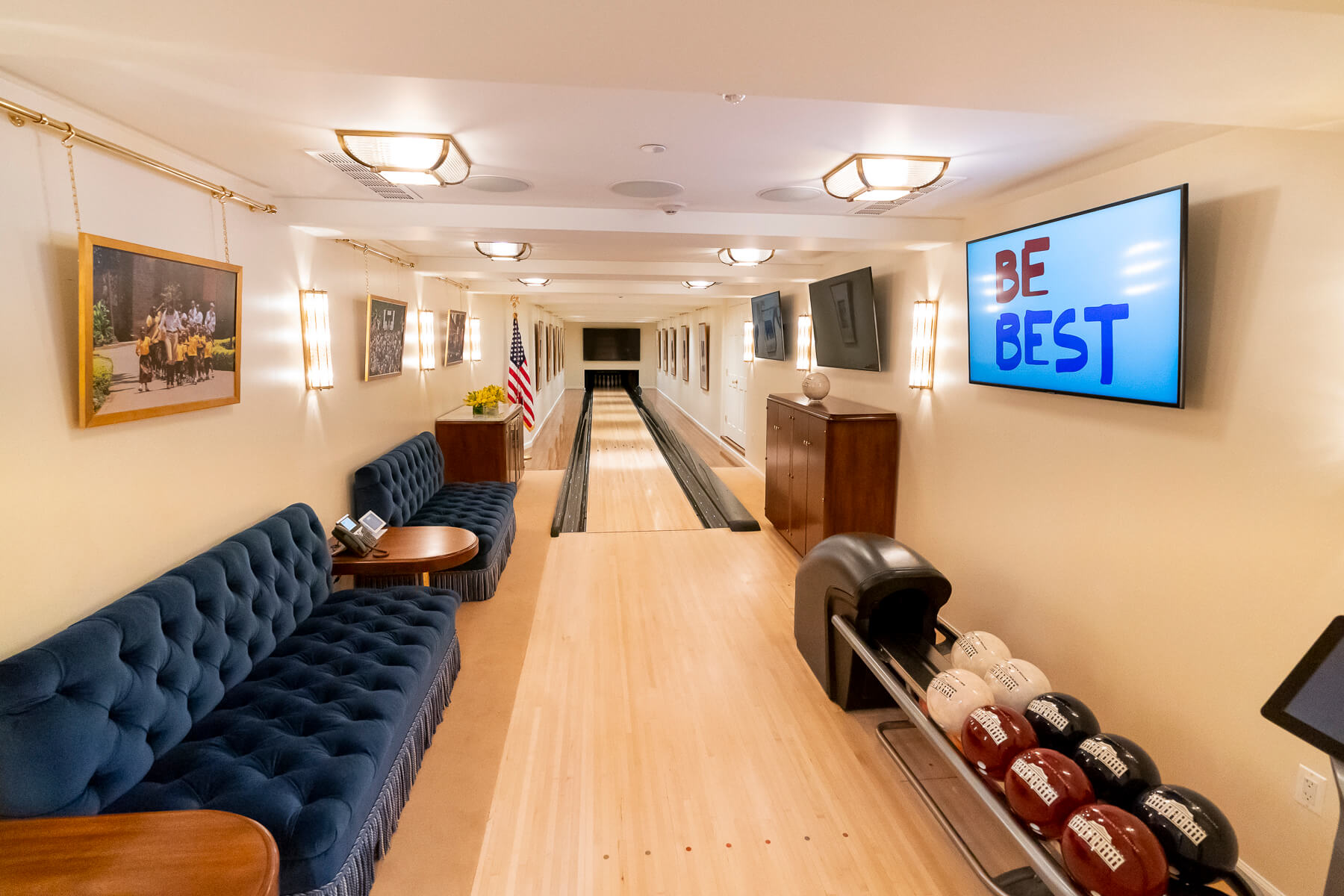 The newly renovated bowling alley is photographed Monday, April 29, 2019, in the White House. (Official White House Photo by Andrea Hanks)